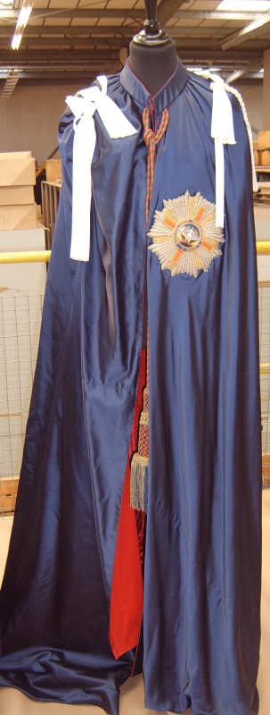 Mantle of the Most Distinguished Order of Saint Michael and Saint George